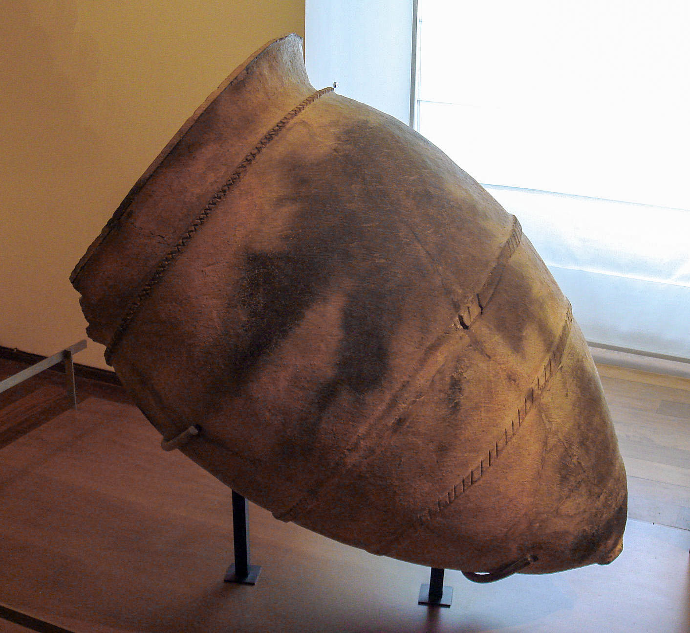 Giant Yayoi Funerary Jar.